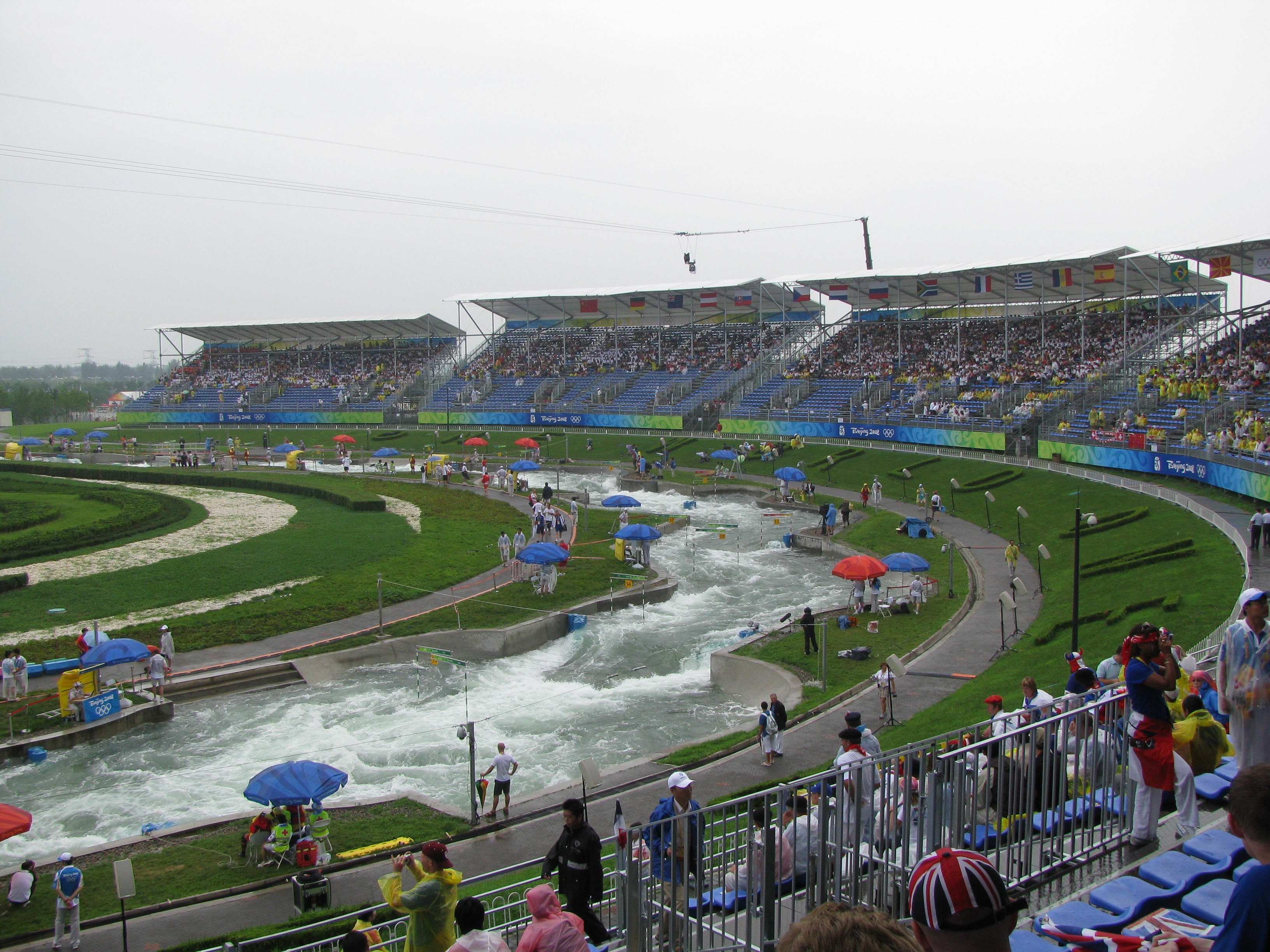 Gate #15, "stir fry," Shunyi Slalom Course, 2008 Olympic Games, Beijing, China.